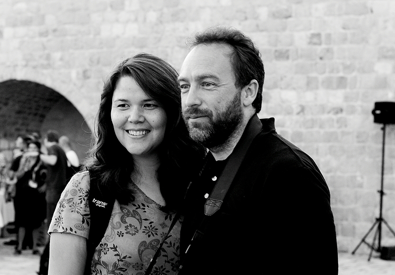 Christine and Jimmy Wales